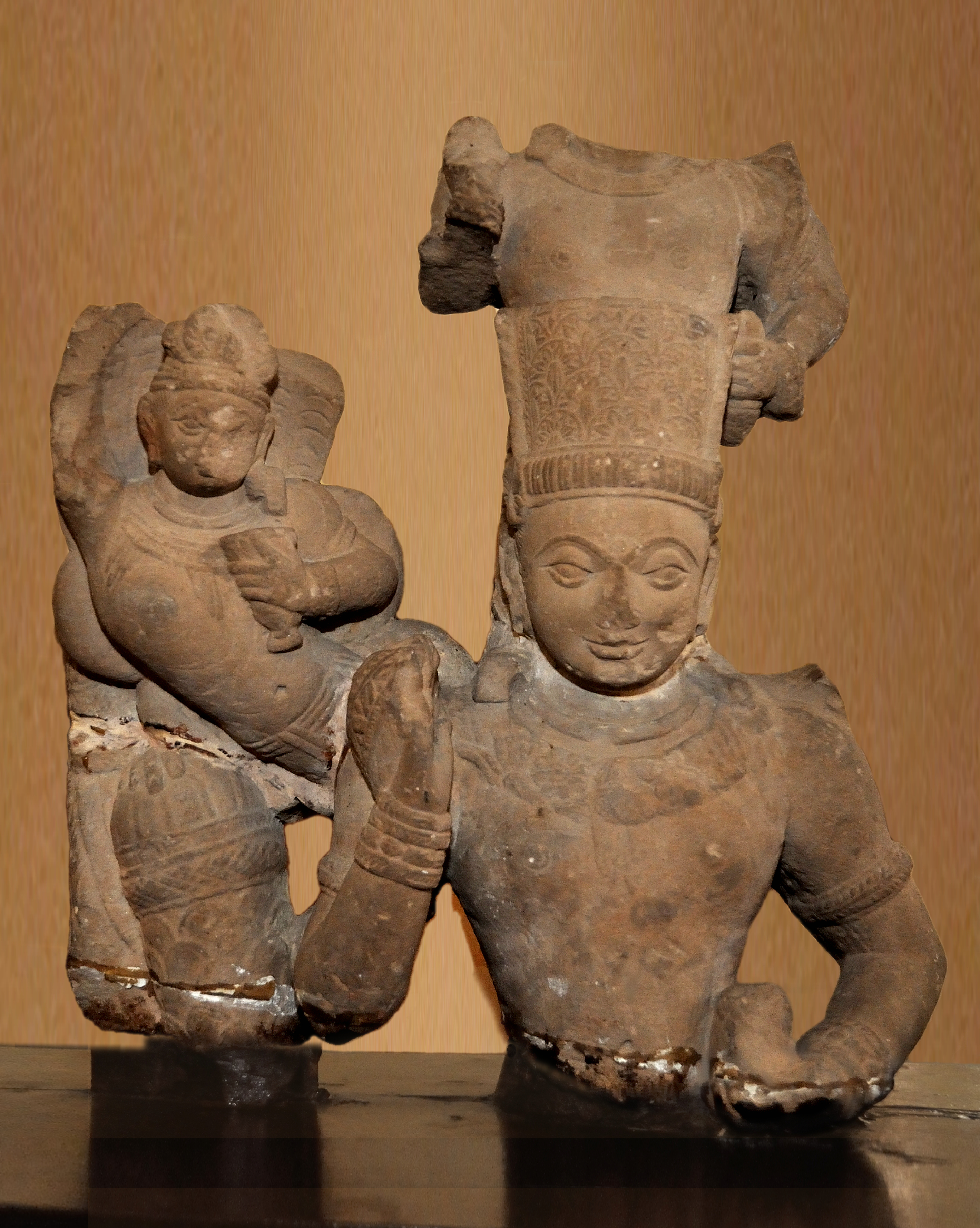 Mathura Vishnu 2nd century CE, Mathura Museum "Chaturvuyha Sankarshan Vasudeva" per Museum notice